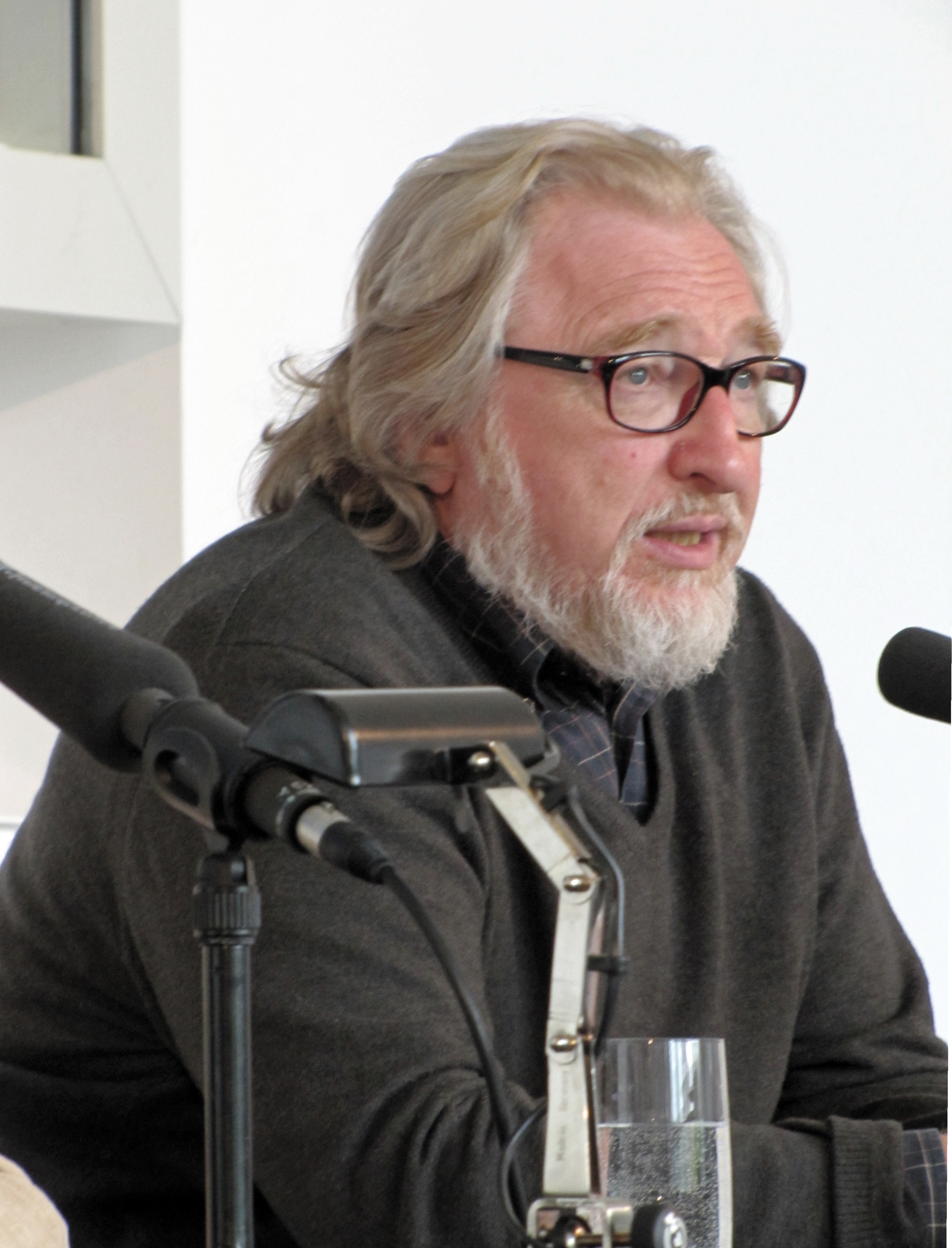 Felix von Manteuffel, German actor, 2011 in Frankfurt am Main, Germany.